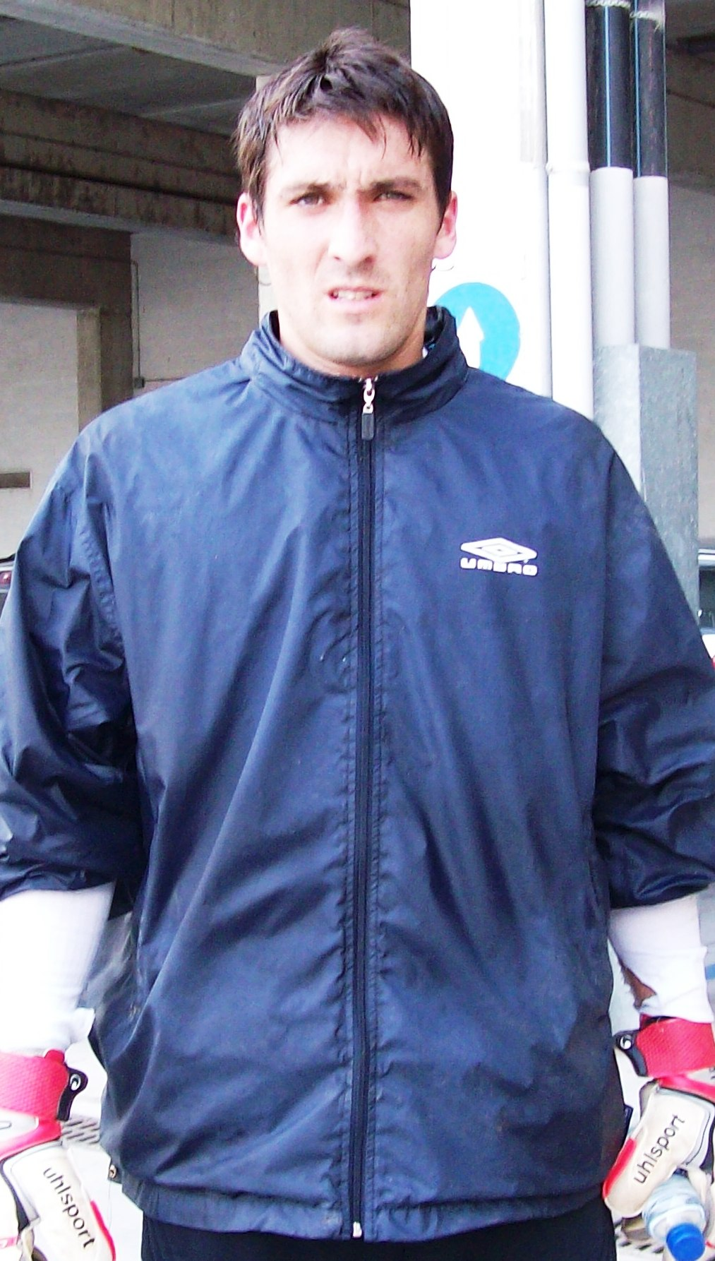 Iñaki Goitia Peña. Málaga CF player.